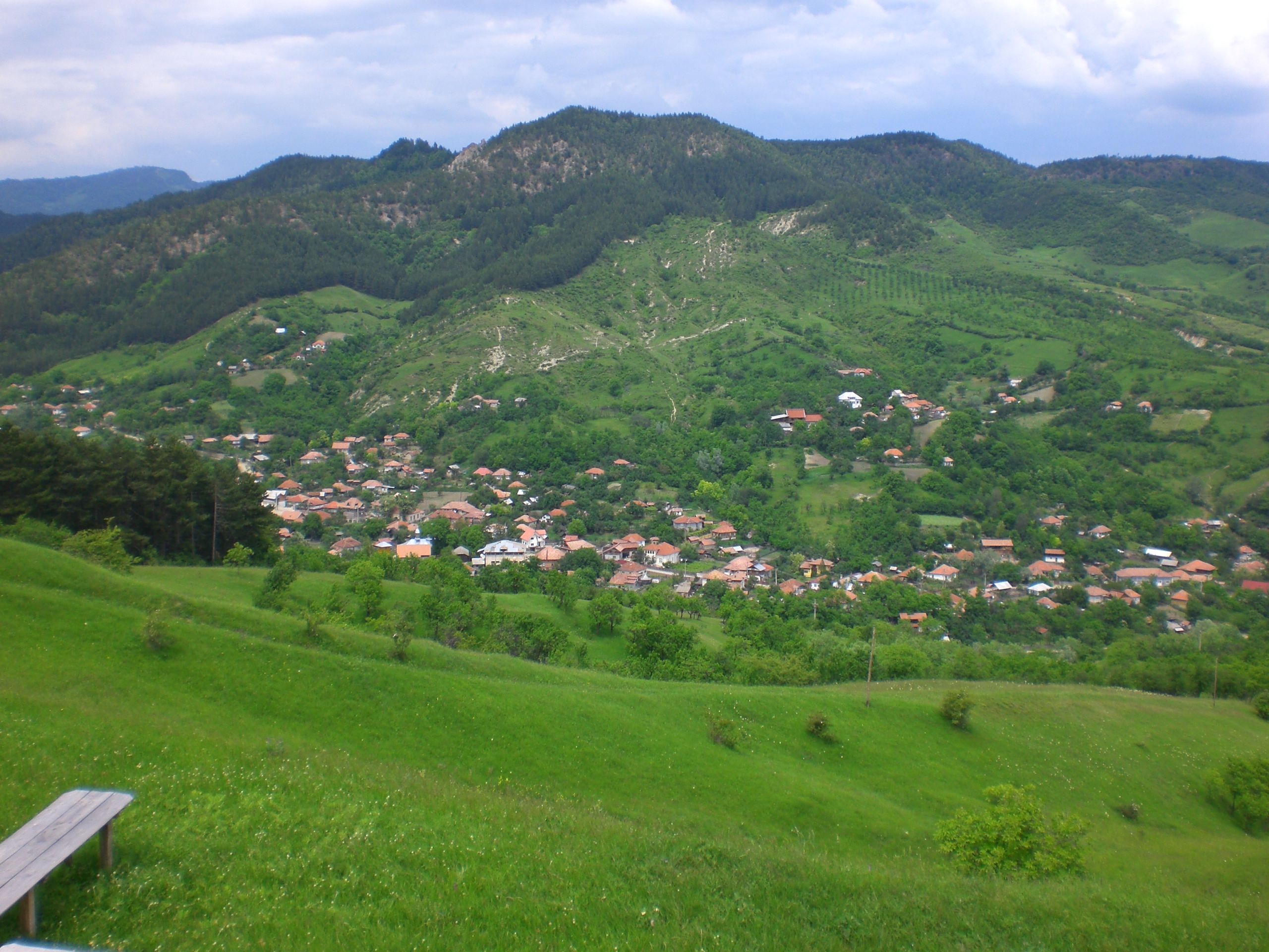 View of the Brăeşti village of the Brăeşti commune, Buzău County, Romania